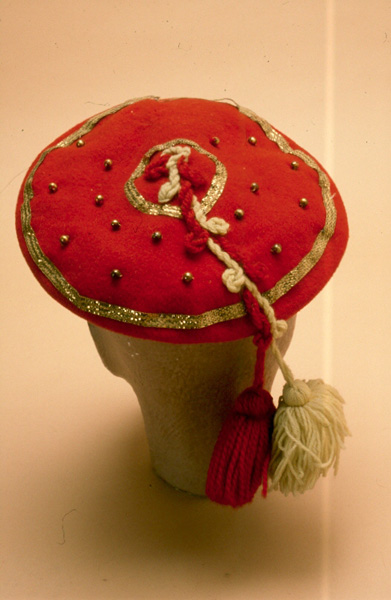 Red wool beret with passemeterie trim. Dance costume from Valcarlos, Navarre.